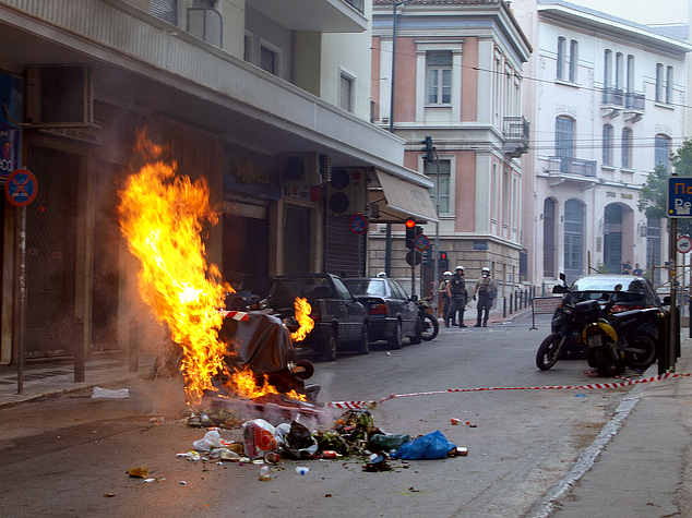 A trash can on fire on a street of Athens during the riots of late June 2011.